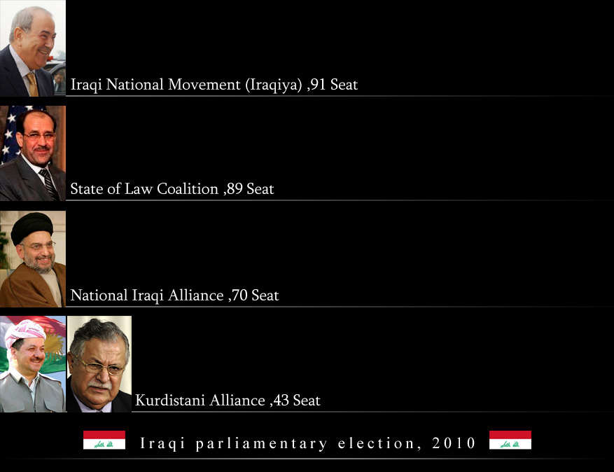 Iraqi parliamentary election, 2010 (Result)